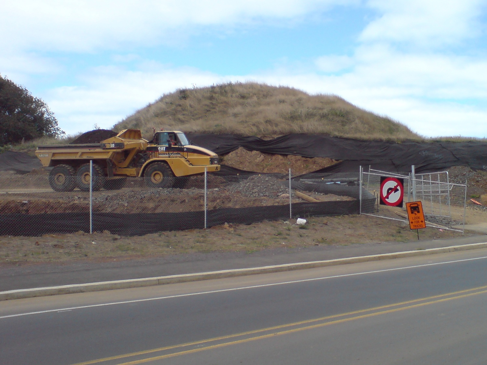 A Caterpillar 740 Ejector on a motorway construction site (State Highway 20, Mount Roskil Extension) in Auckland City, New Zealand. I think this was at Mt Eden Road.